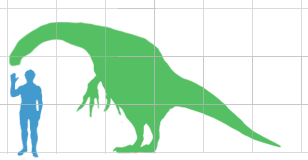 Size comparison of Nanshiungosaurus and a human. Scaled based on vertebral column, with other proportions based on Alxasaurus.